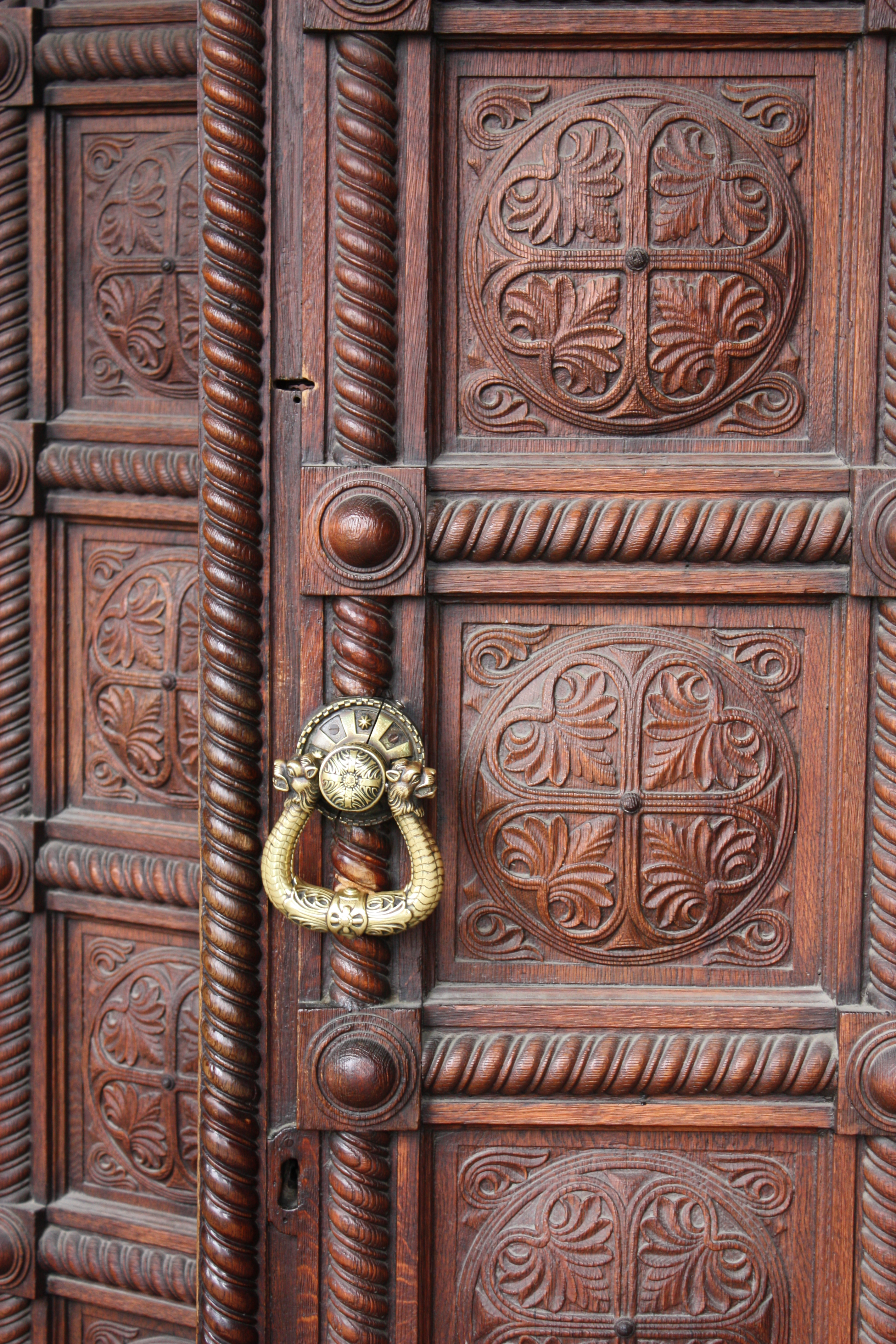 Alexander Nevsky Cathedral, Sofia, Bulgaria